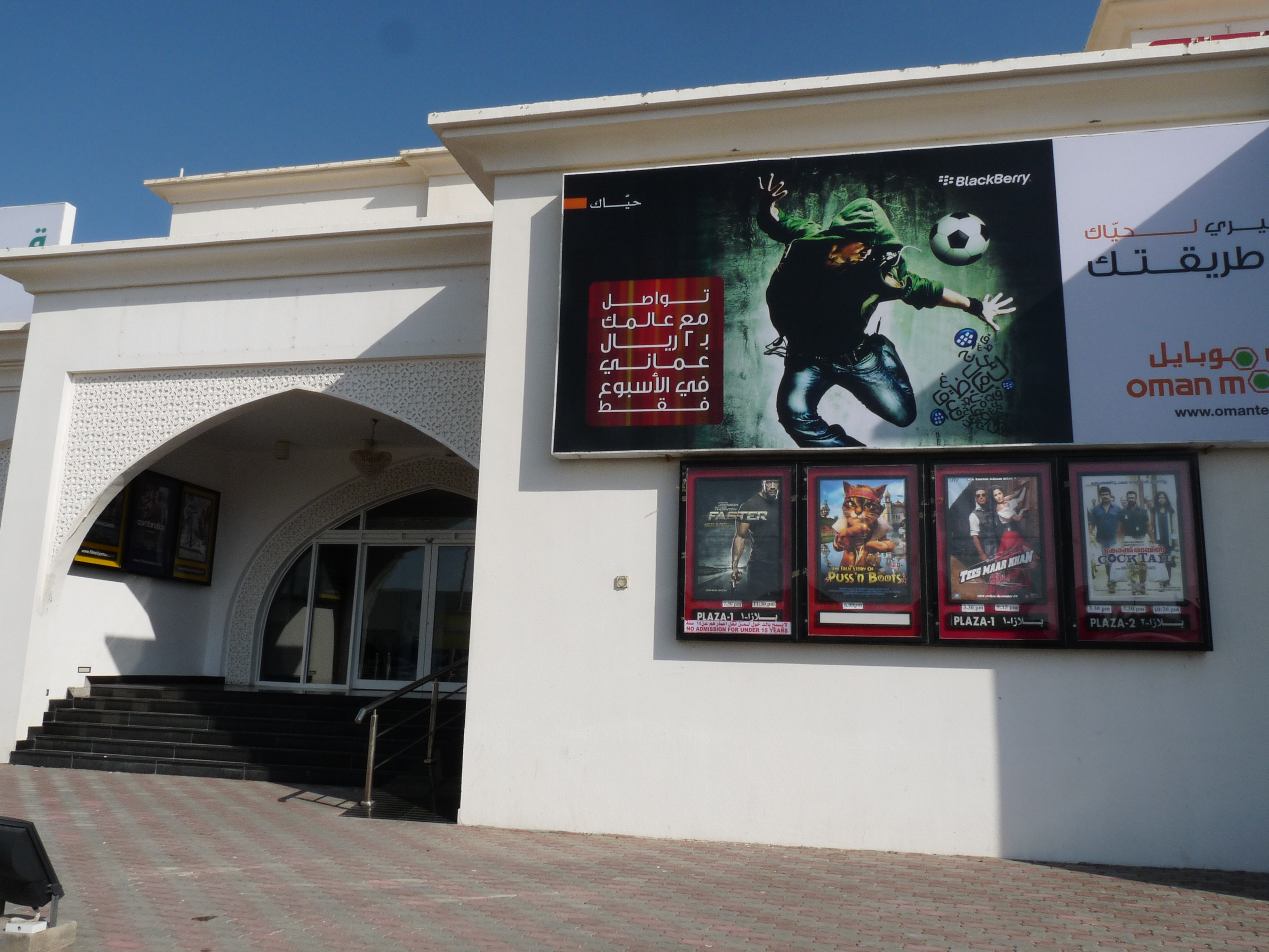 Cinema in Sur (Oman)